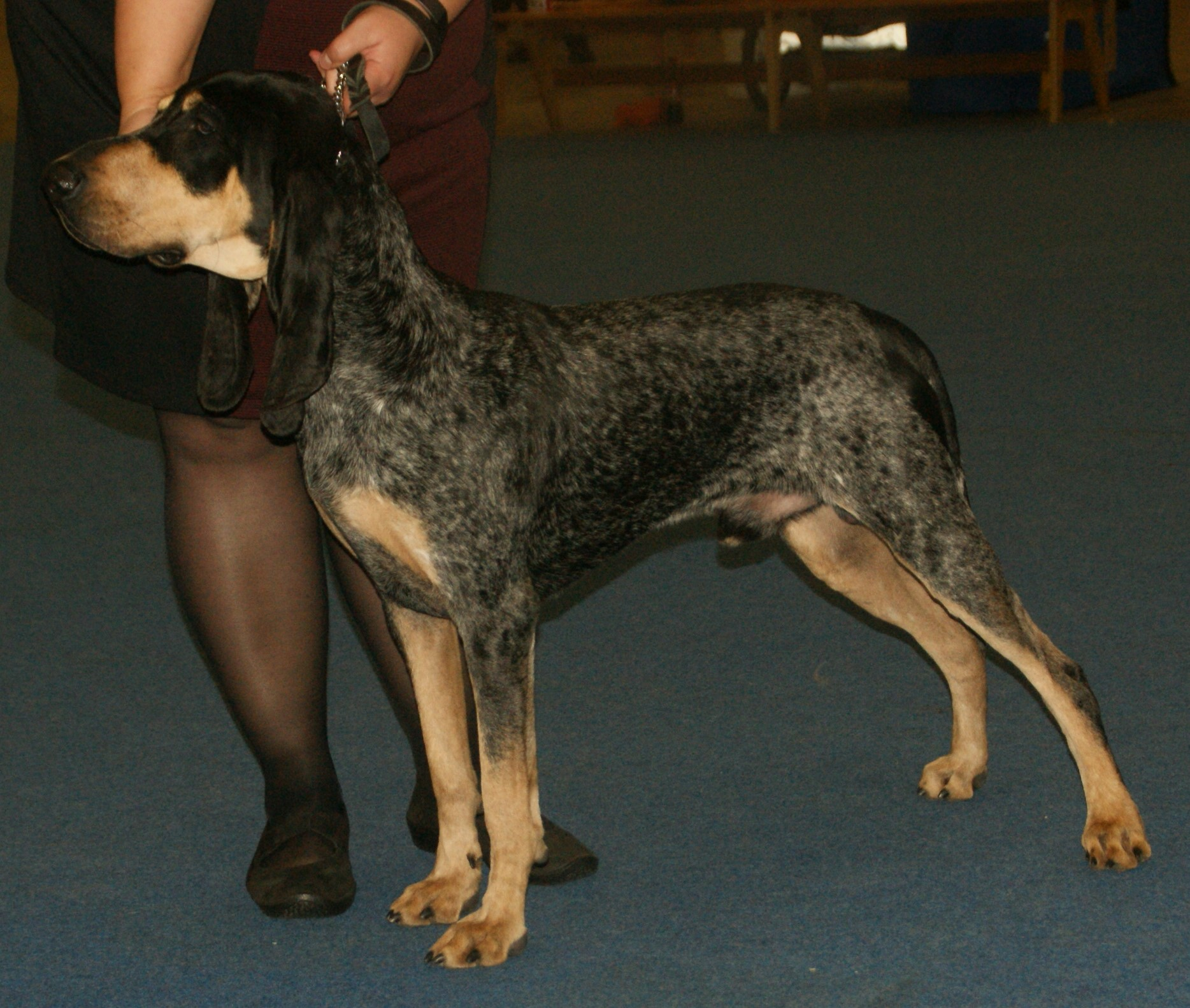 Small Blue Gascony Hound male